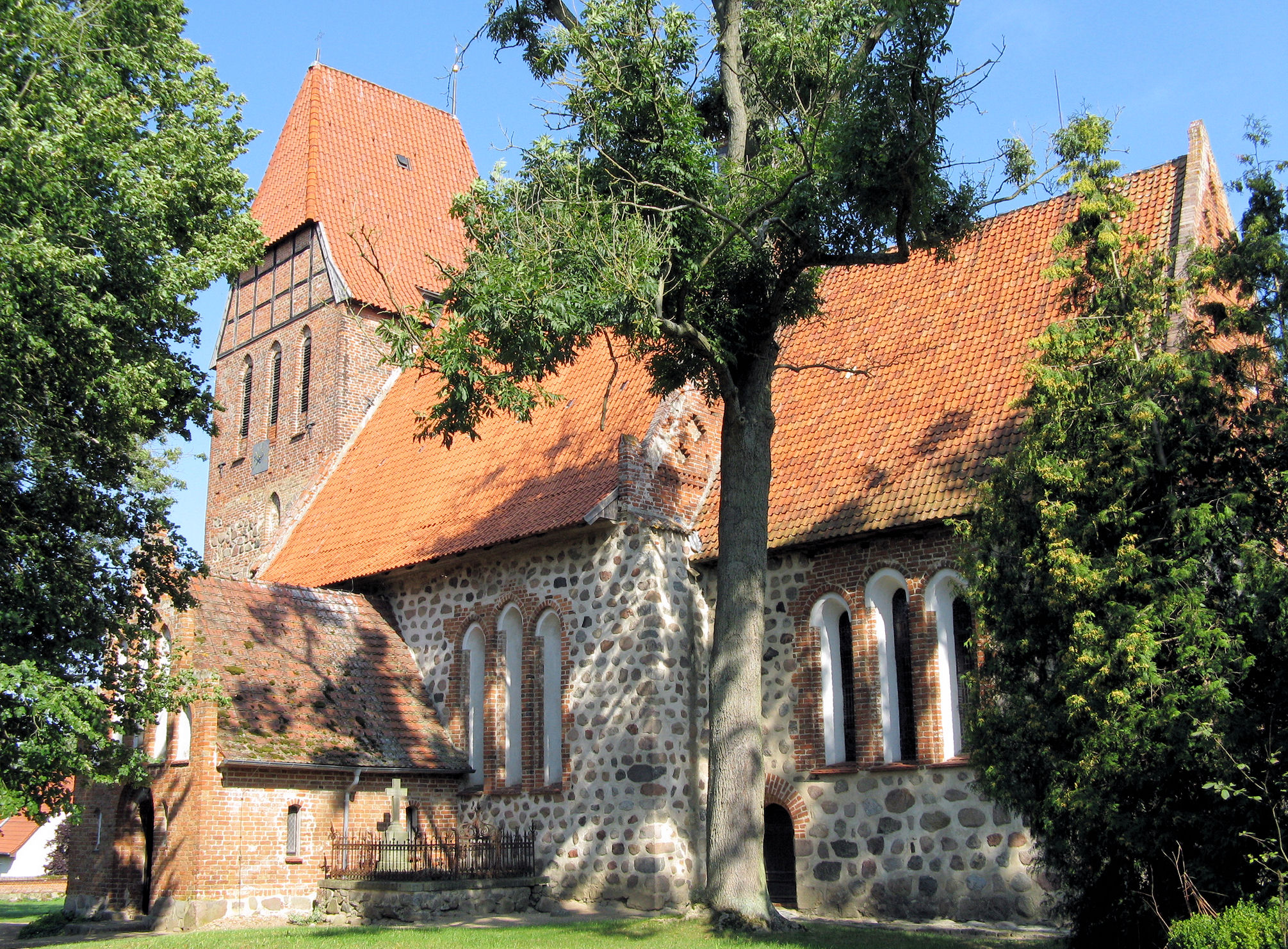 Church in Recknitz, disctrict Güstrow, Mecklenburg-Vorpommern, Germany